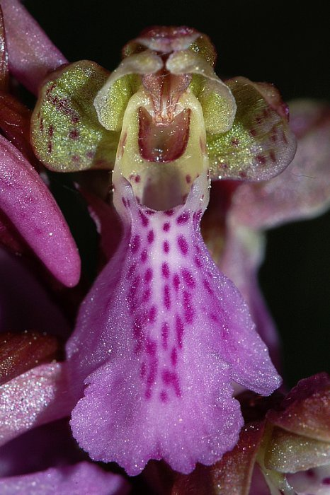 Orchis spitzelii, single flower, front side, Vercors, France